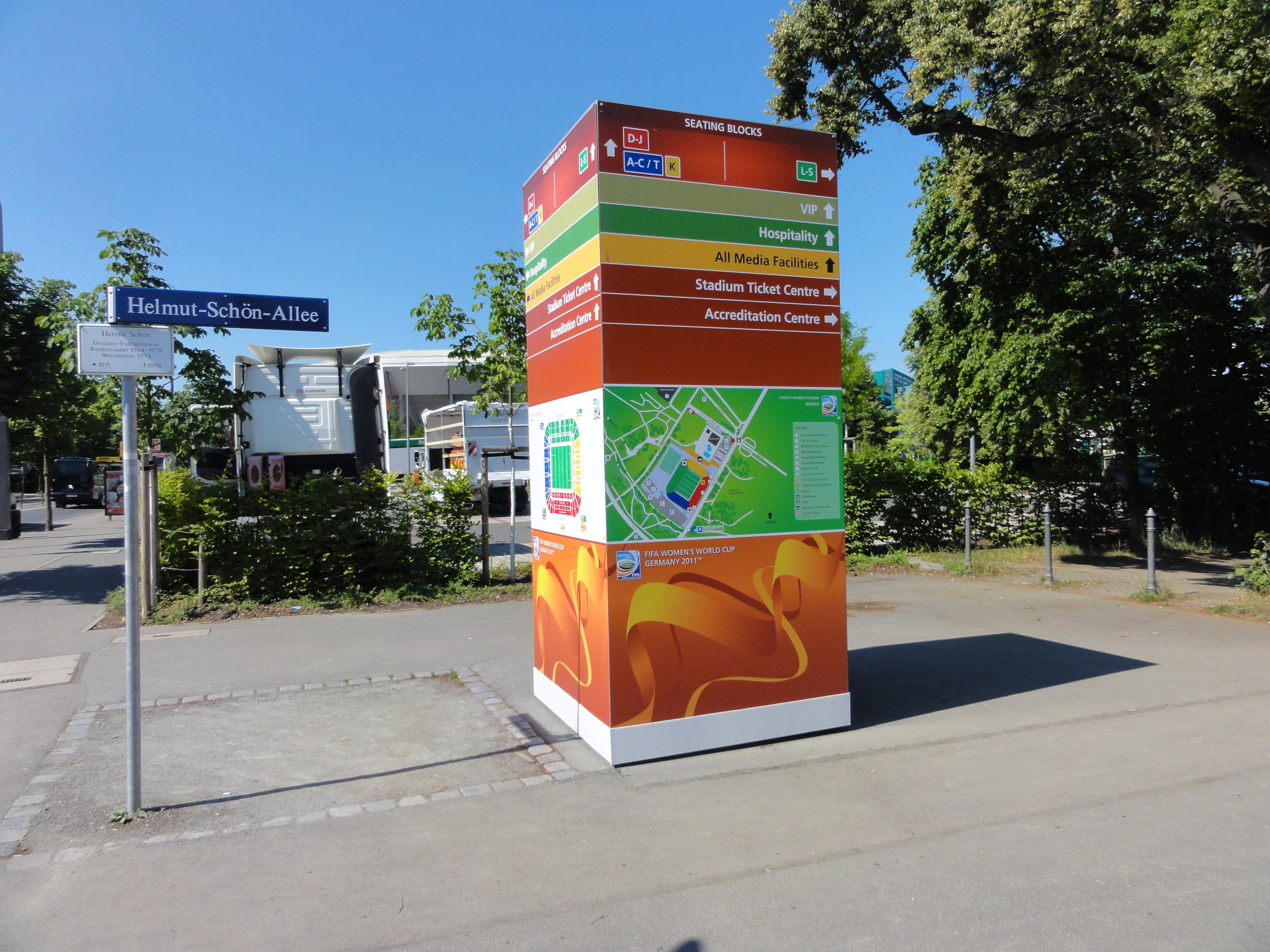 The surroundings of the match location Dresden at Women's World Cup 2011. The US team won versus the North Koreans 2:0 among 21,859 spectators.